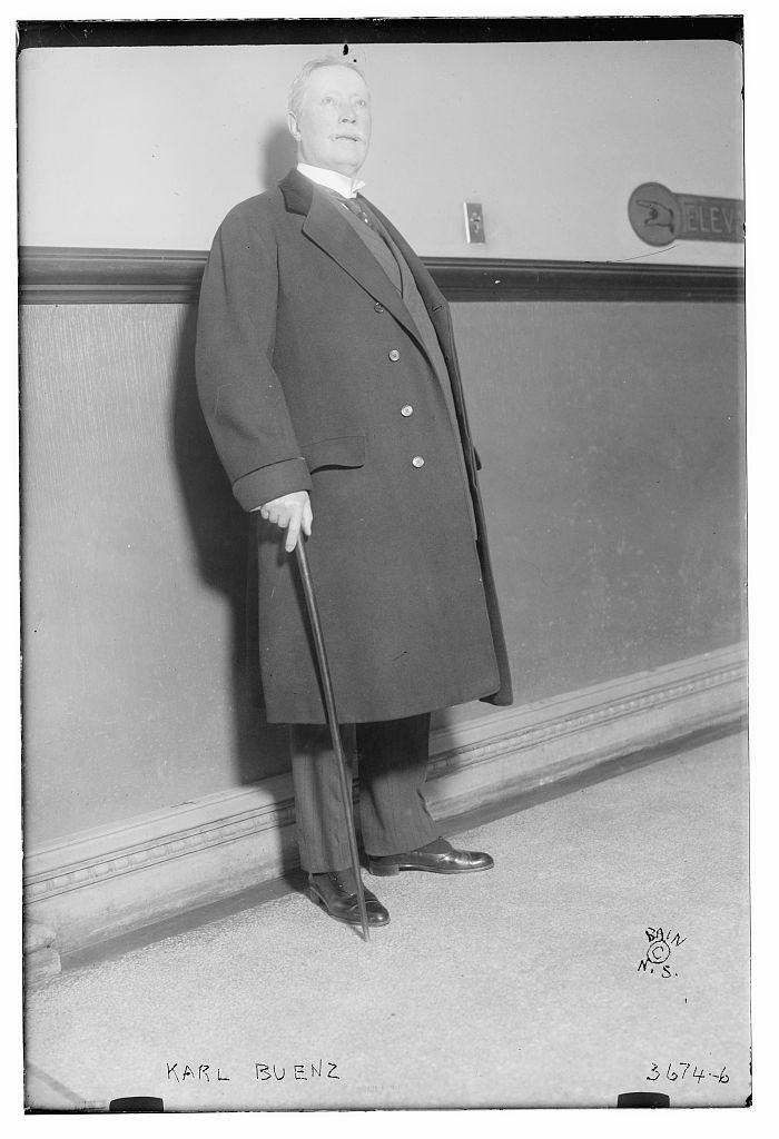 Carl Gottlieb Bünz in 1915